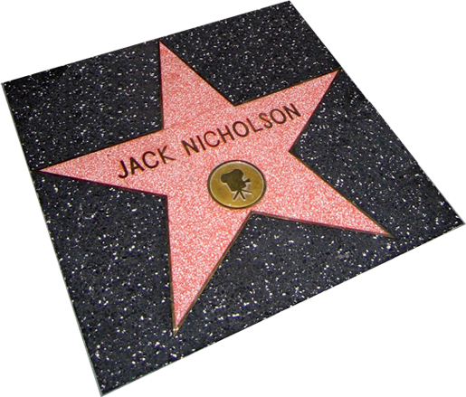 Jack Nicholson Star on the Hollywood Walk of Fame. On Hollywood Boulevard in Hollywood, Los Angeles, California.